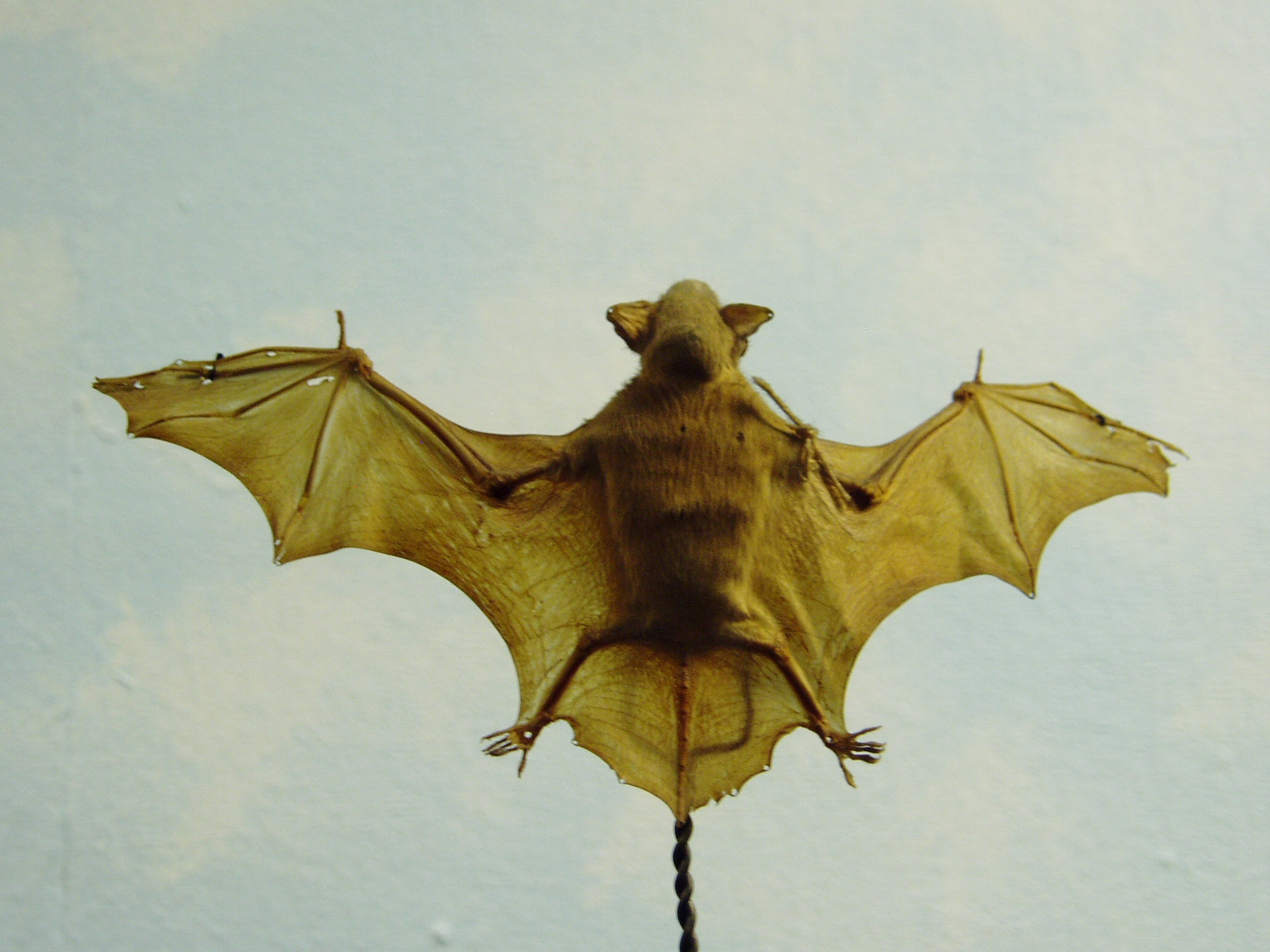 Lesser Bamboo Bat (Tylonycteris pachypus), taxidermy, Gothenburg museum of natural history